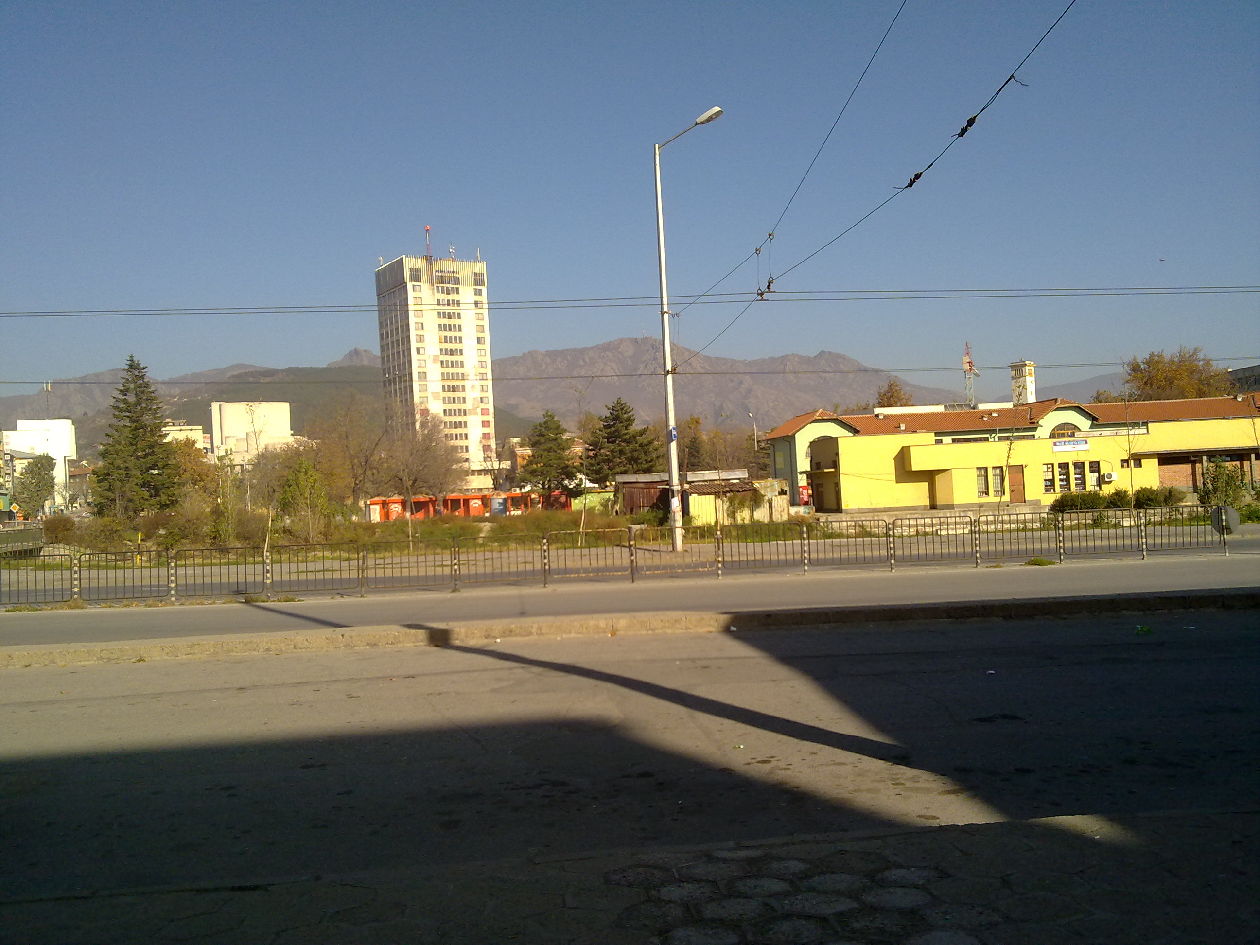 A photo of the city of Sliven.